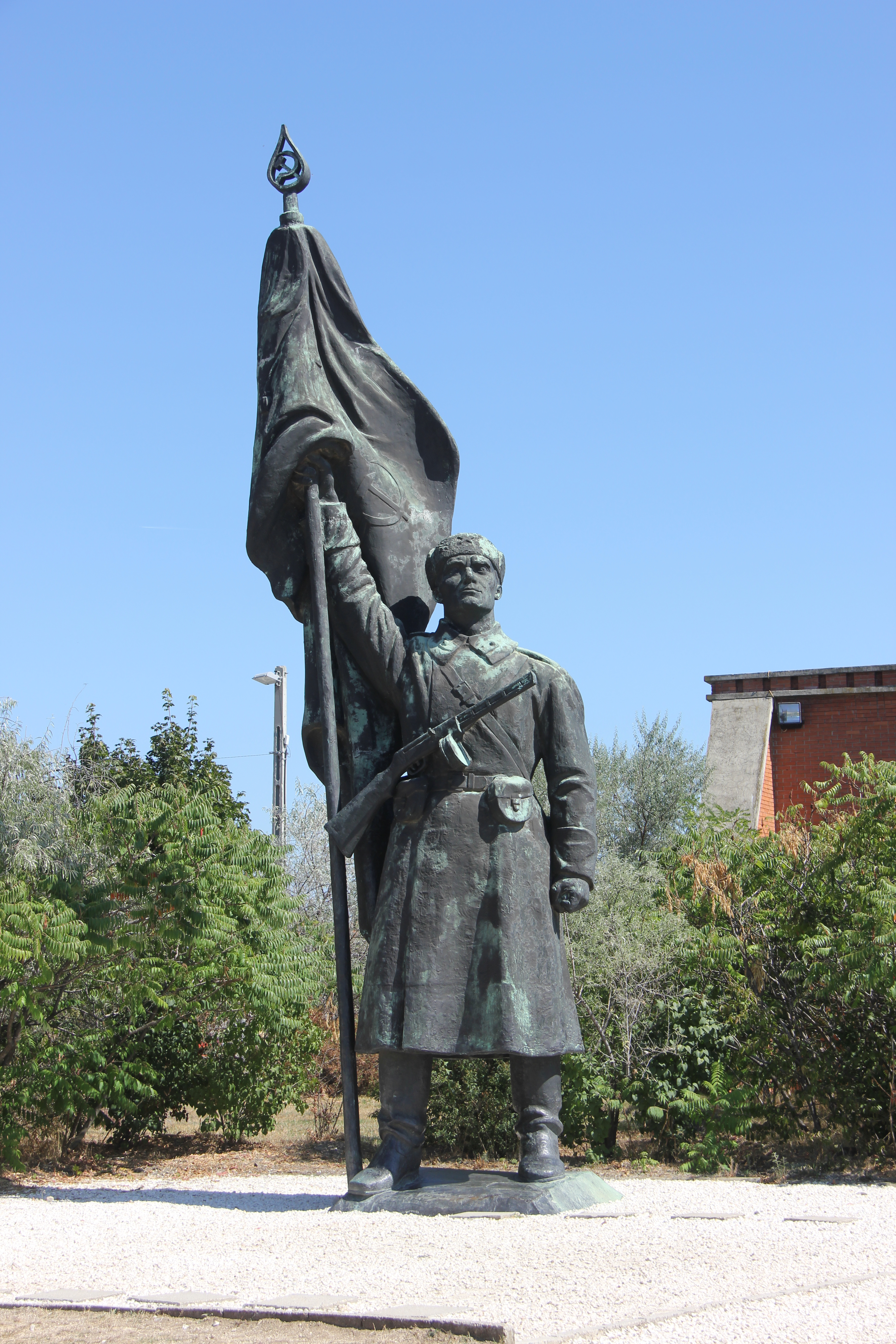 This one used to stand at the base of the Freedom Statue on Gellert Hill.